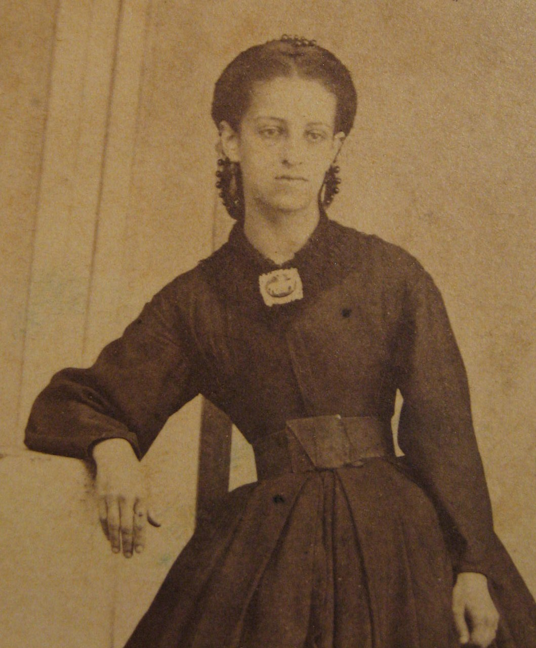 Rosa María Córdova y Puig, (1843-1881), daughter of liutenant Joaquin de Córdova y García and mother of eight children two of whom were the mexican archbishops Martin y Guillermo Tritschler y Córdova, her husband Martin Tritschler was a succesful watch dealer and maker from the Black Forest in Germany, naturalized mexican, he participated in the Mexican-American-War, philanthopist and humanitarian and expert mountain climber.